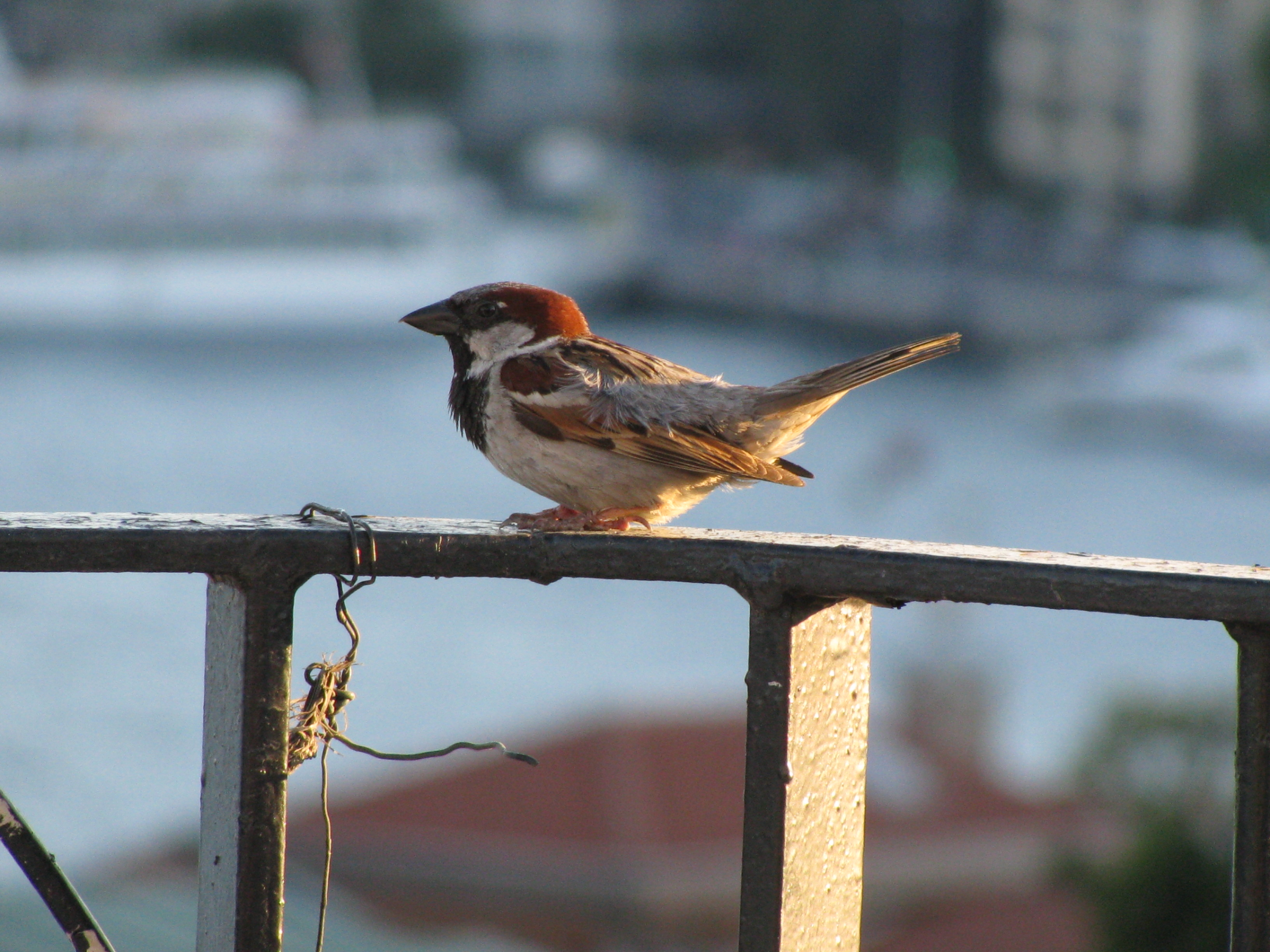 A male House Sparrow perching on a Balcony in Arnavutkoy, Istanbul, Turkey.